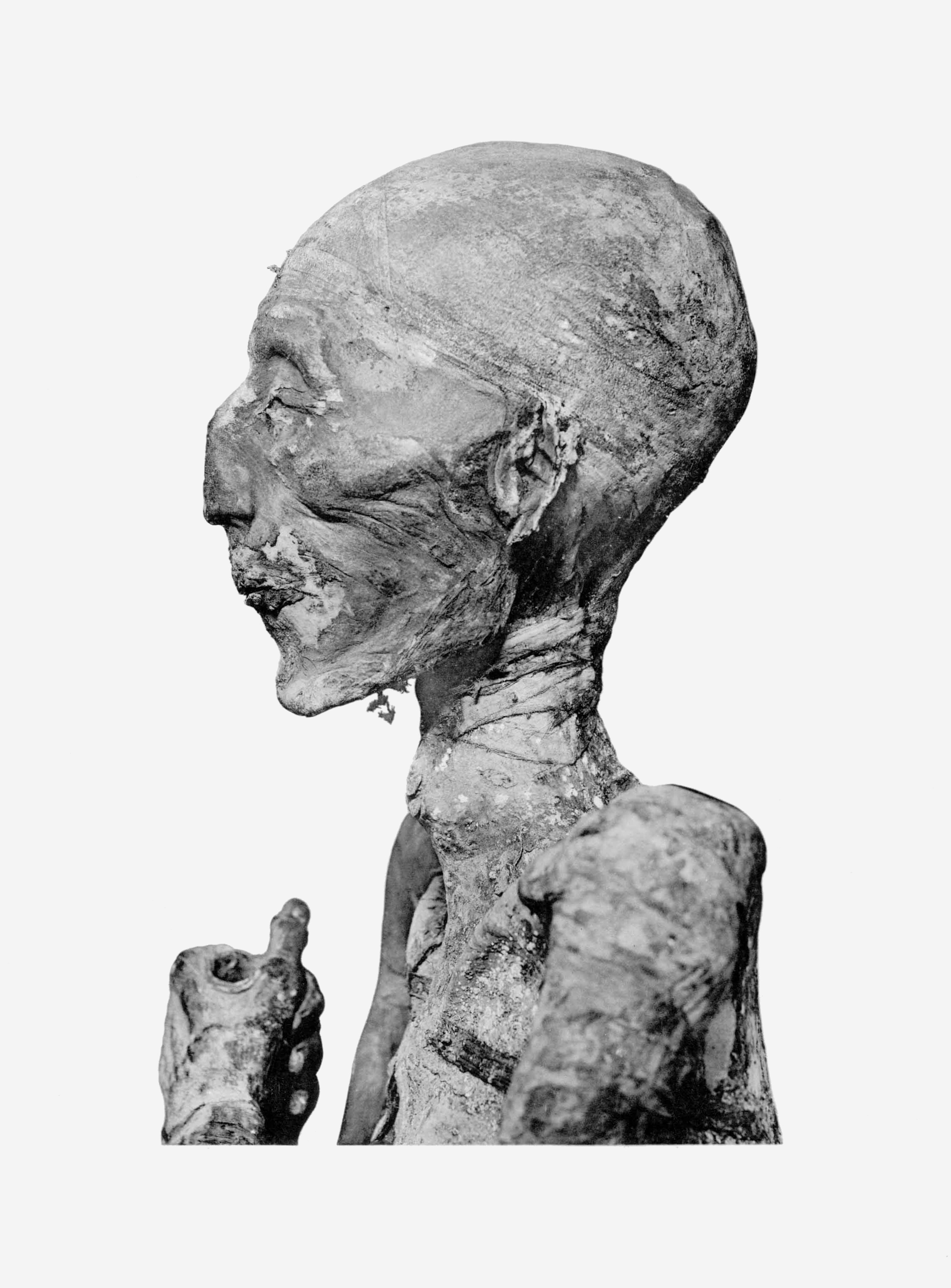 Head of mummy of pharaoh Merneptah.